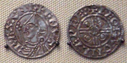 Coins of Cnut_1016_1035_